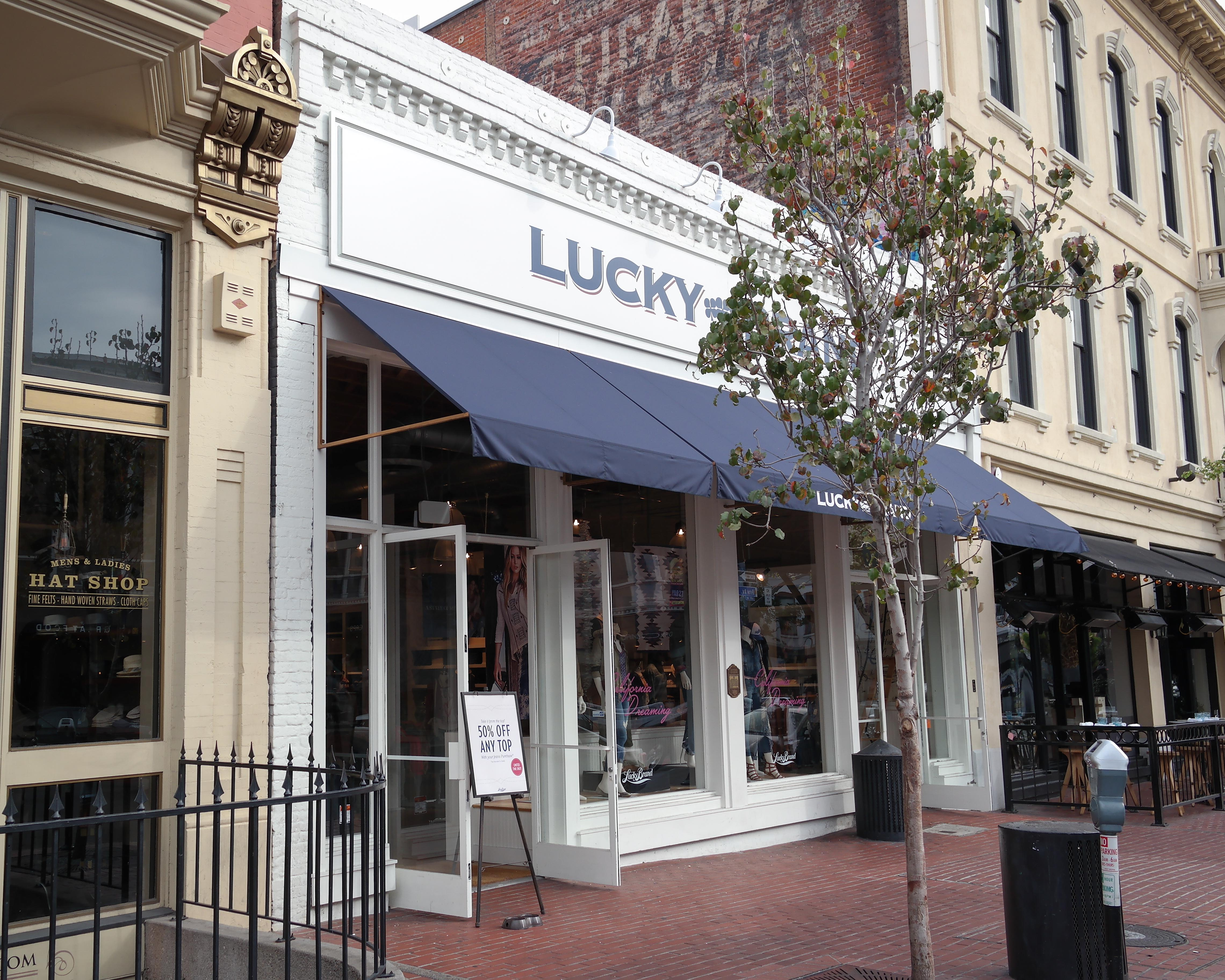 Historic Building Survey plaque: "52 The Combination Store, 1880. Constructed in 1880, the Combination Store is one of the oldest brick structures still standing in the Gaslamp District, dating further back than the Yuma. Originally, the building was built for one store, and had a 36-inch parapet, a metal cornice, and a frame porch extending to the street. It was first known as the New York and Boston Combination Company, specializing in dry goods and clothing. In 1914, the building was divided into two stores. Later, the parapet was shortened and the porch removed."